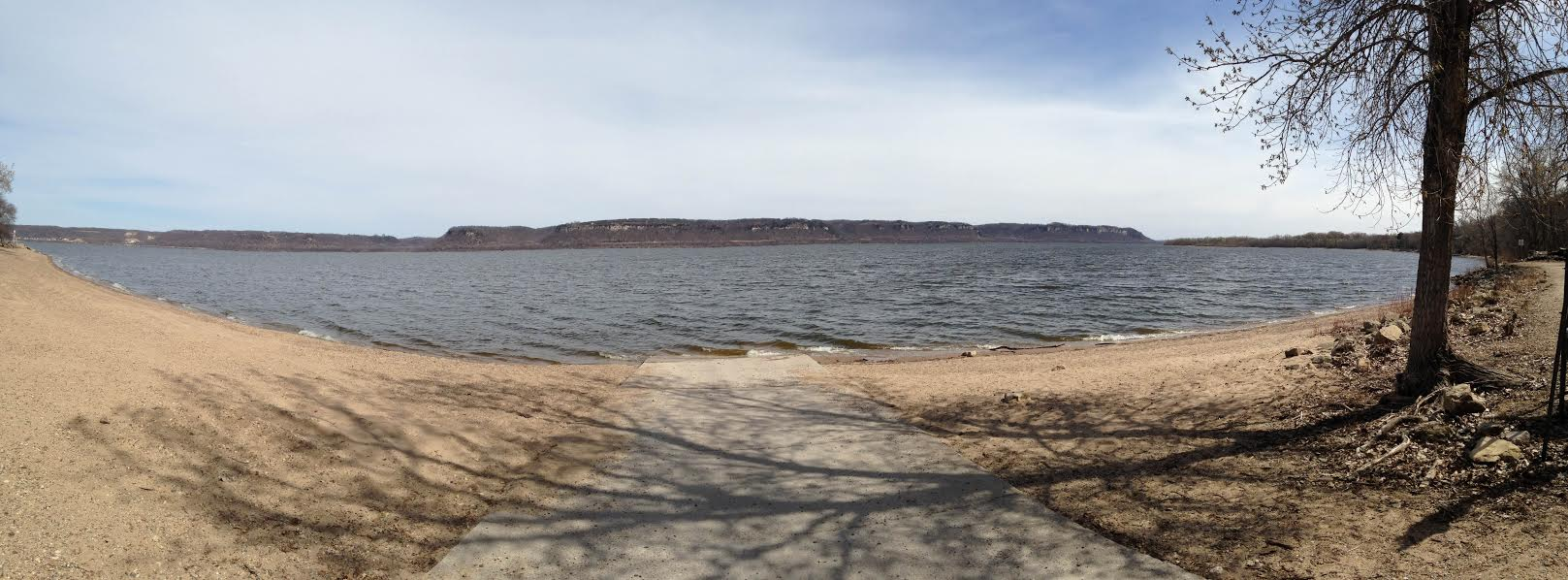 Panorama of Lake Pepin from Florence Township's beach in Frontenac.